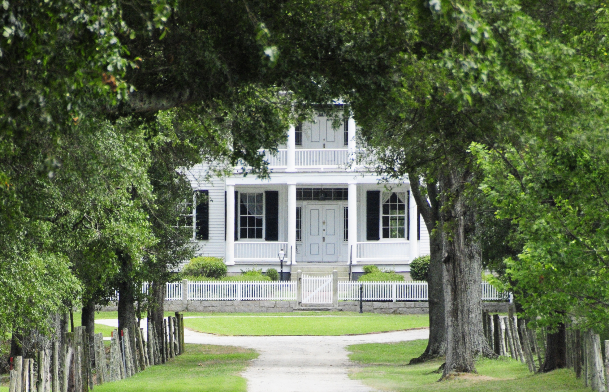 The Oaks